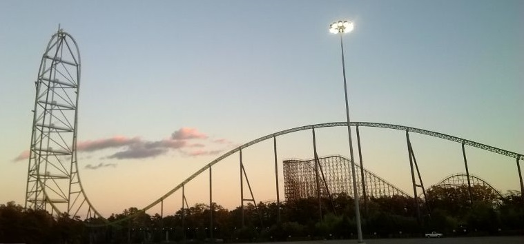 Kingda Ka and El Toro at Six Flags Great Adventure, New Jersey, USA.